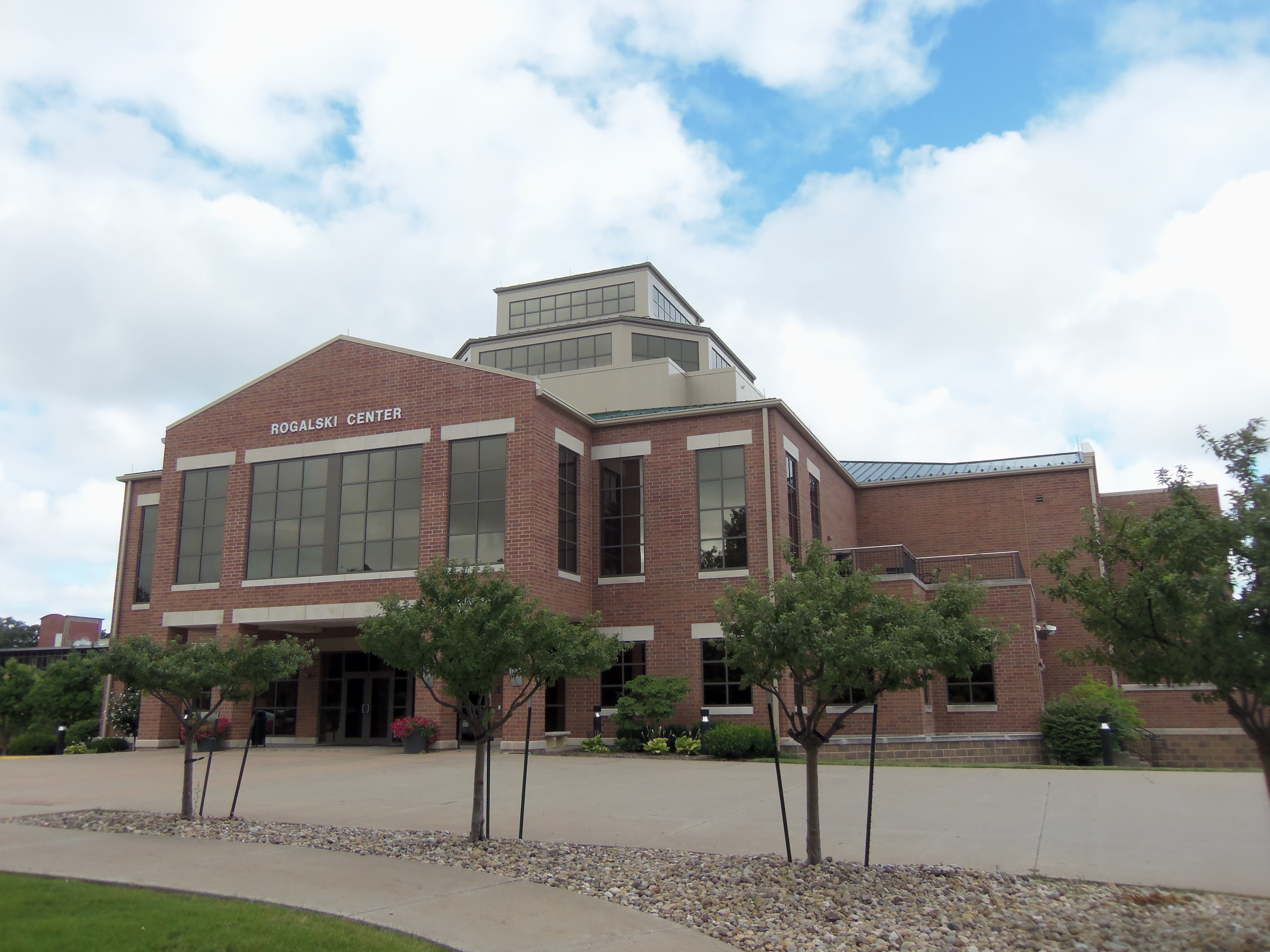 Rogalski Center on the campus of St. Ambrose University in Davenport, Iowa.